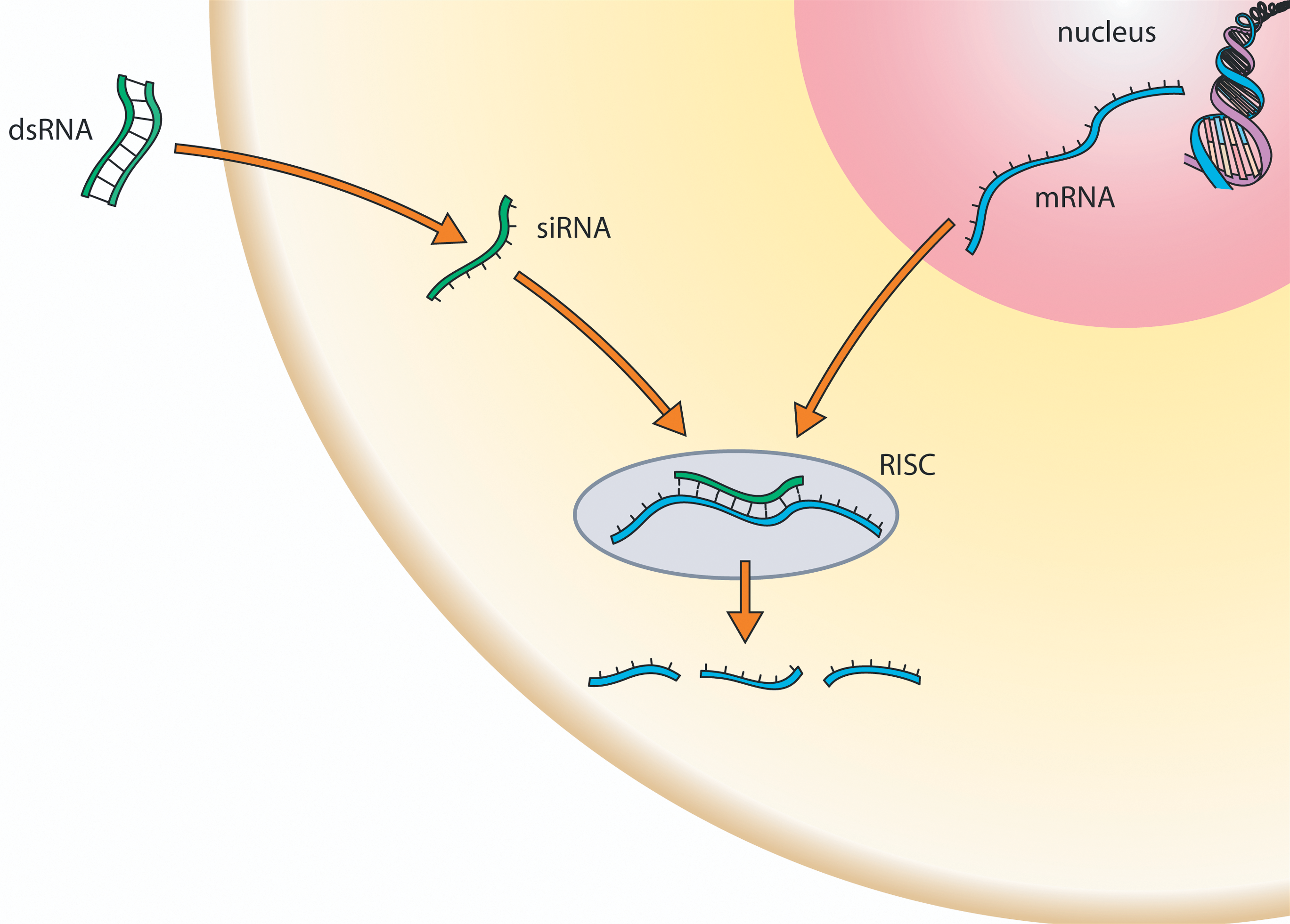 RNAi is a recently described naturally occurring process in which small RNA molecules activate a cellular process that results in the destruction of a specific mRNA.